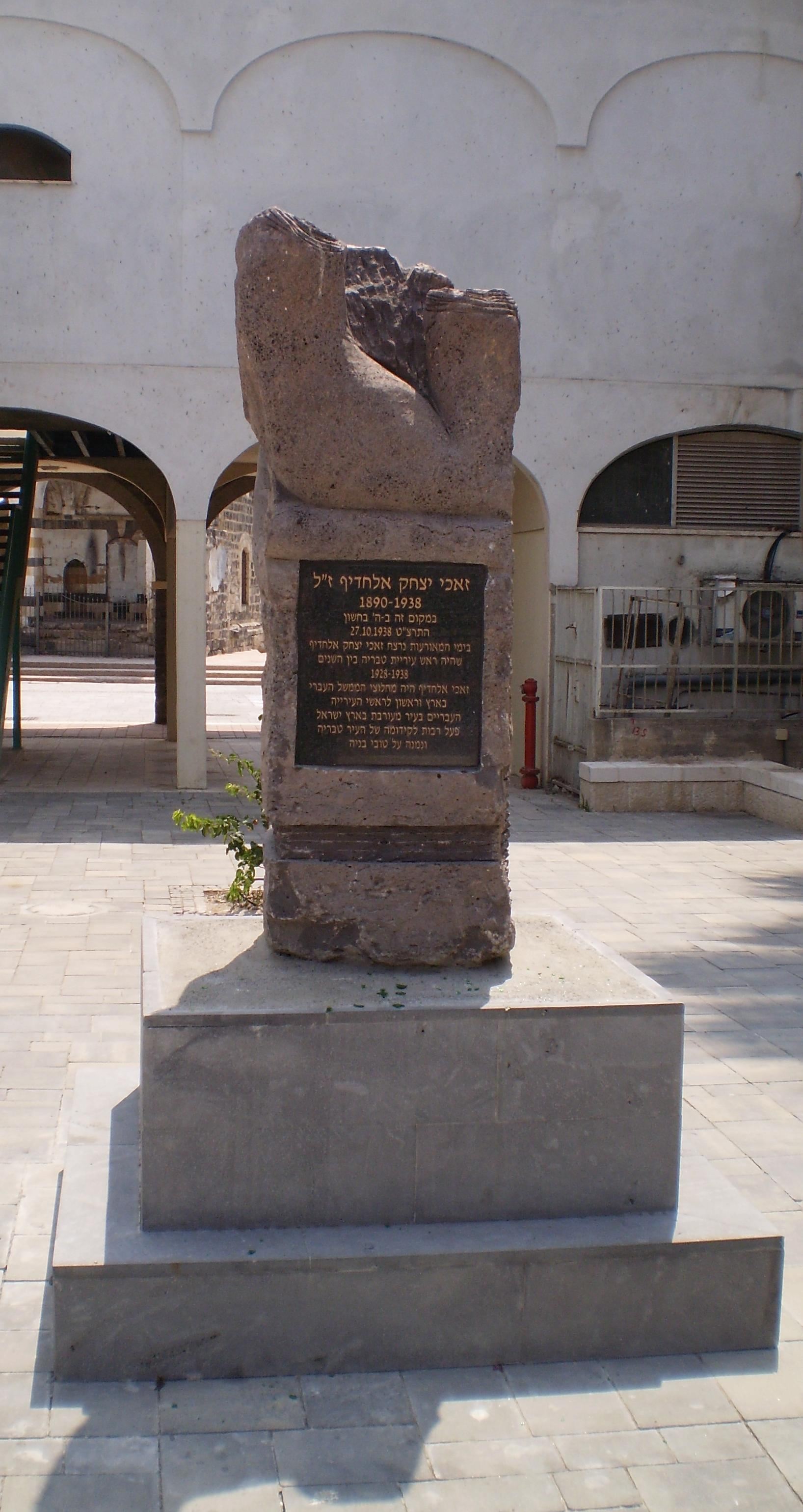 Zaki Alhadif memorial, Tiberias